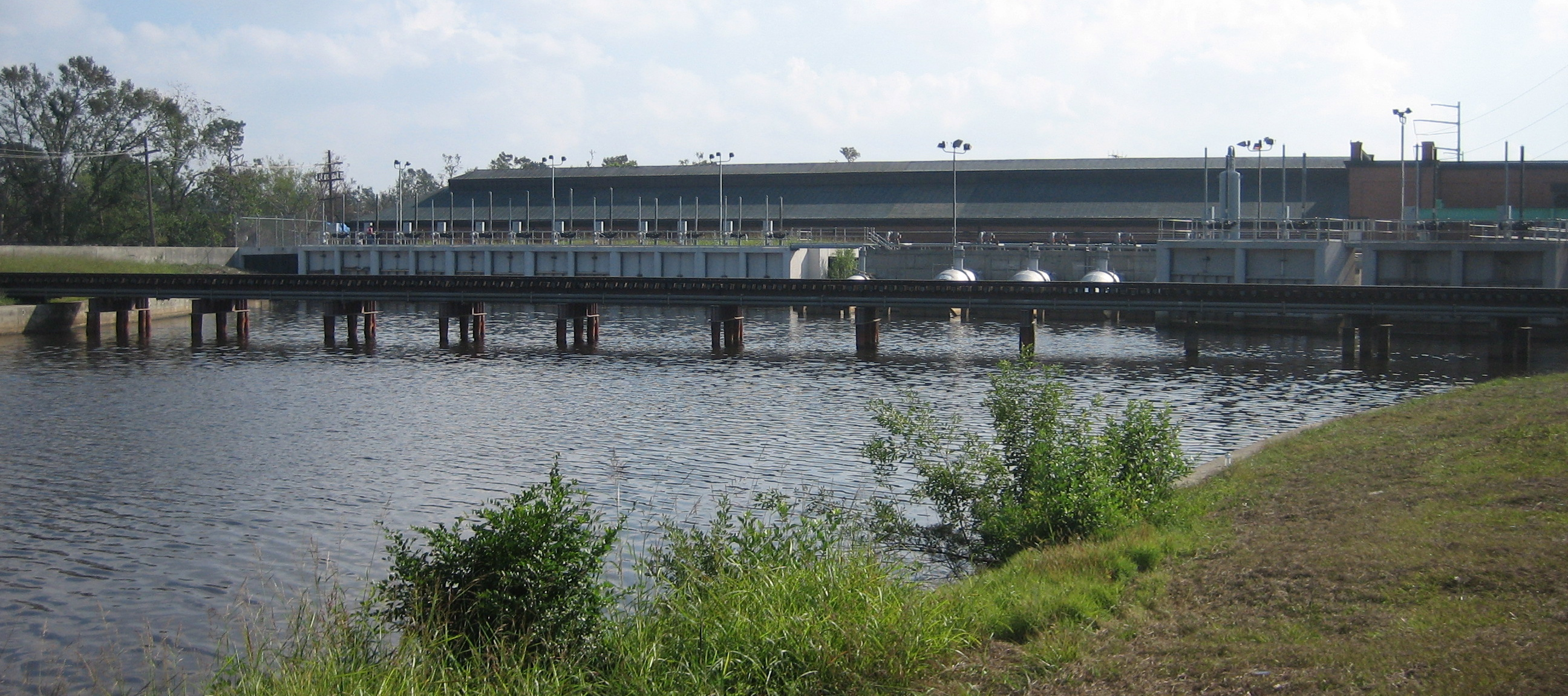 Back (Lake Pontchartrain facing) side of the Metairie Pumping Station over the 17th Street Canal, on the border of New Orleans and Metairie, Louisiana.